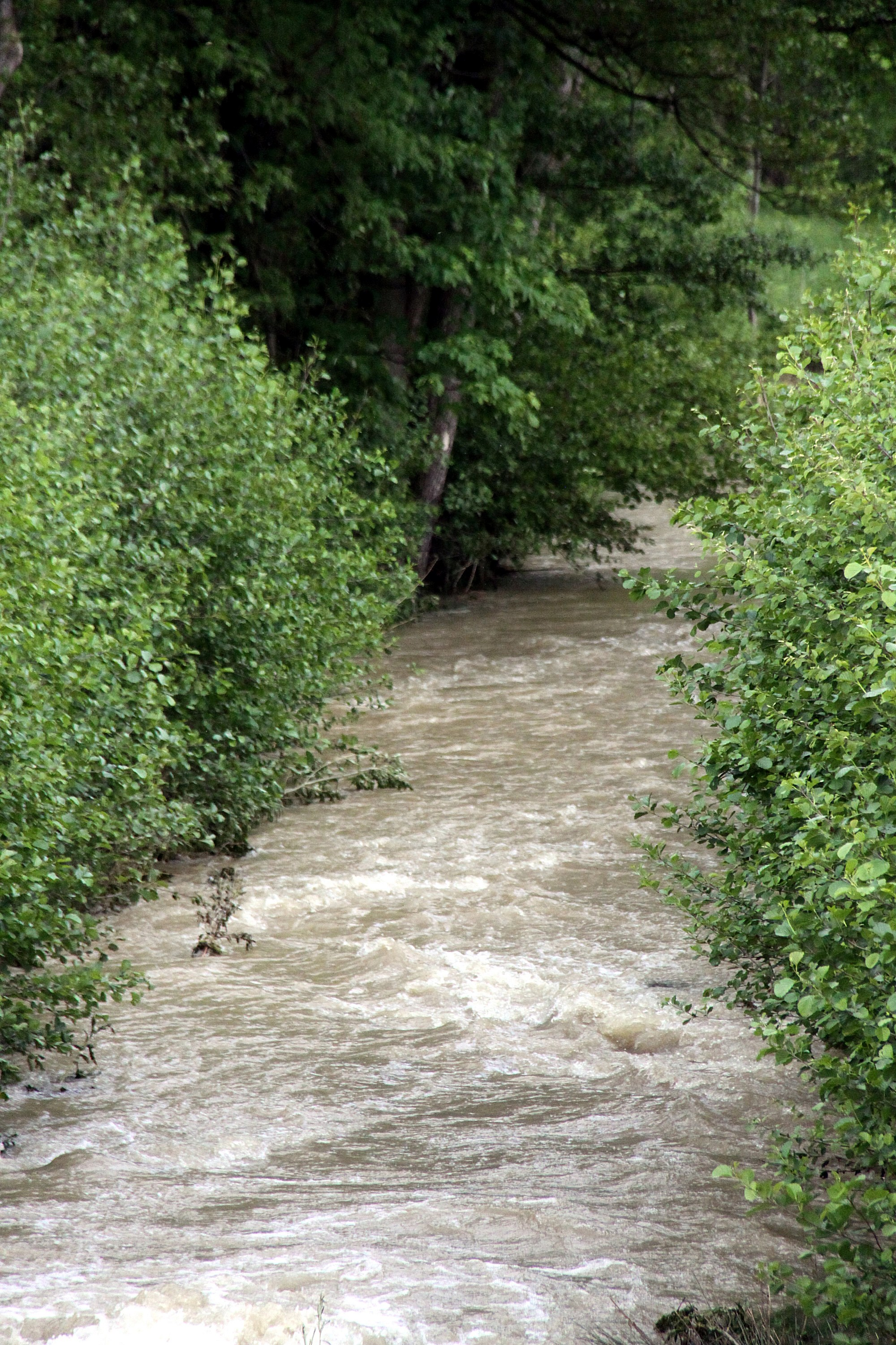 Municipality Hollenthon in Lower Austria. – The photo shows the confluence of the Spratzbach and the Thalbach in Blumau form the origin of Rabnitz (river).